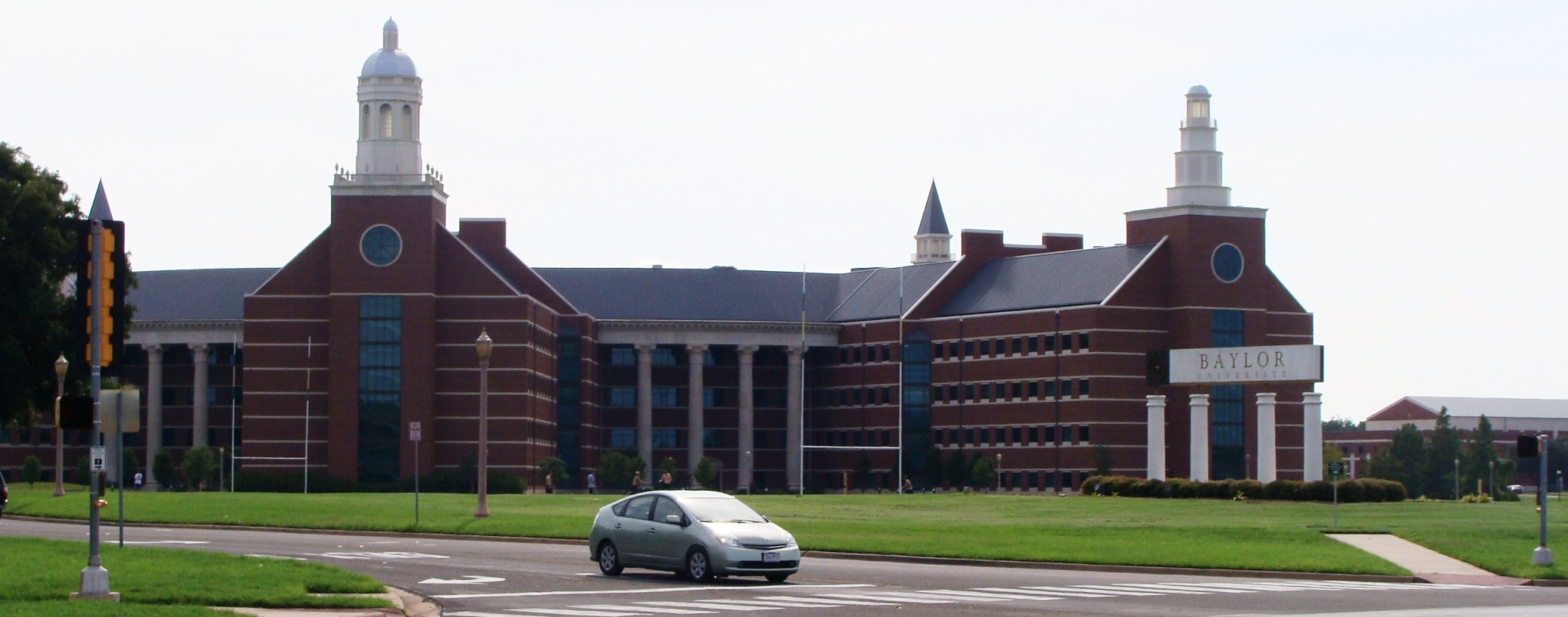 Baylor University, Waco, Texas